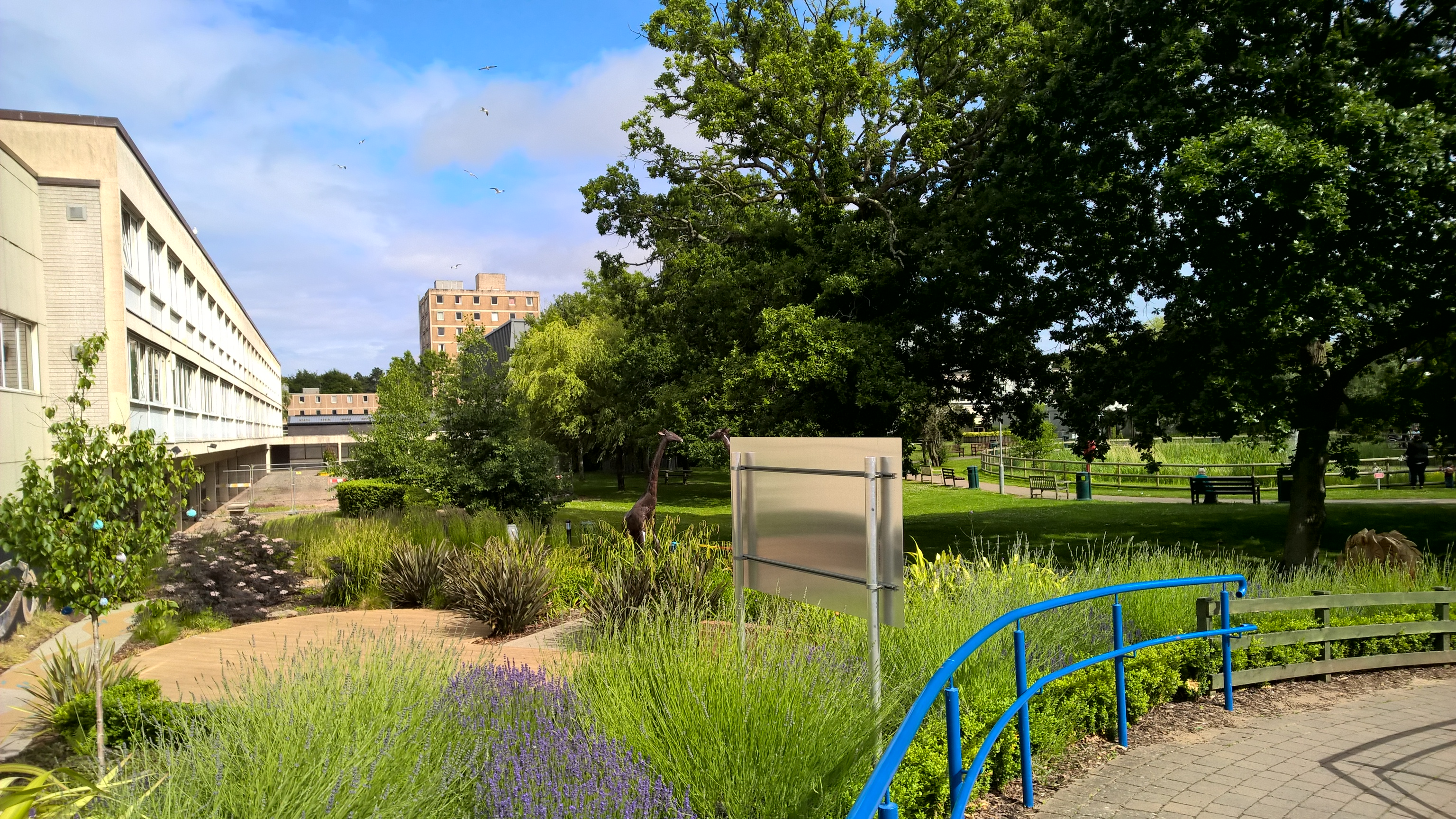 University Hospital of Wales gardens